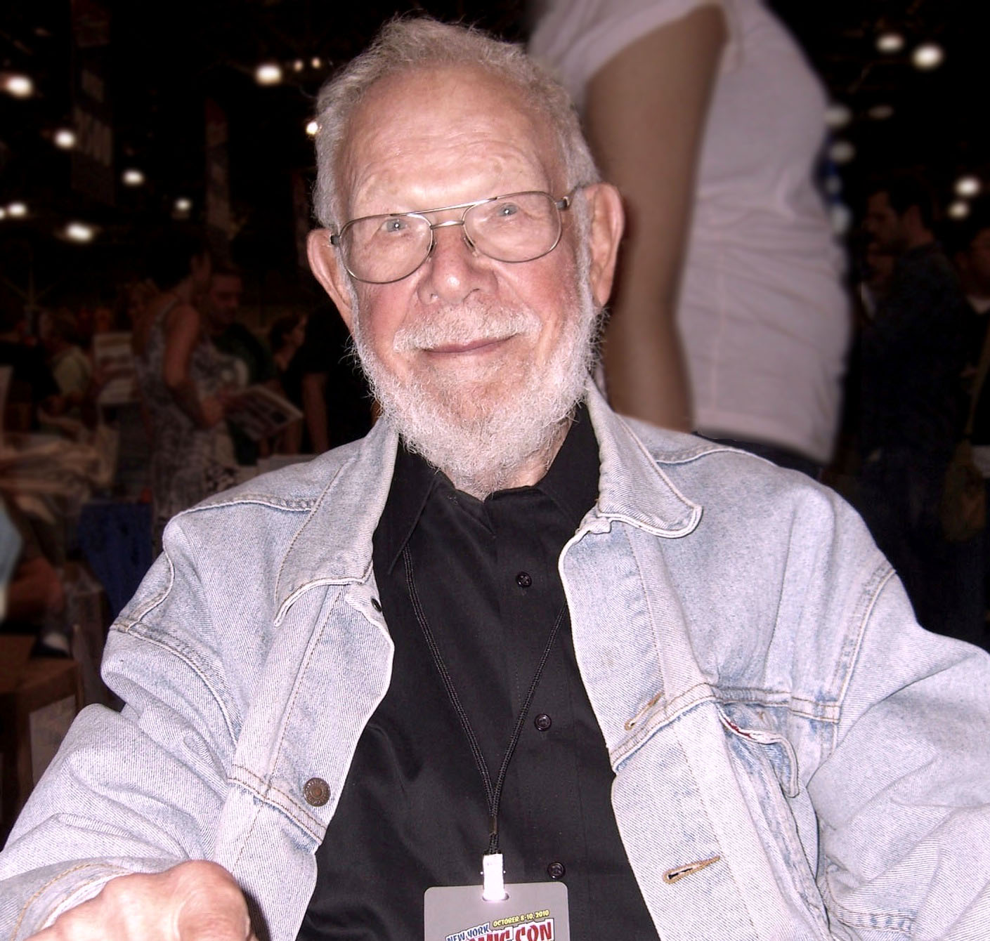 Cartoonist Al Jaffee at the New York Comic Convention in Manhattan, October 9, 2010. Photo by Luigi Novi. This photo may be used, modified and published for any purpose, only if a easily visible credit to the photographer is placed near the photo in each instance in which it is used. (See licensing information below.) Publication of this photo without this proper attribution constitute copyright infringement. For more information on my photos, you can contact me here.